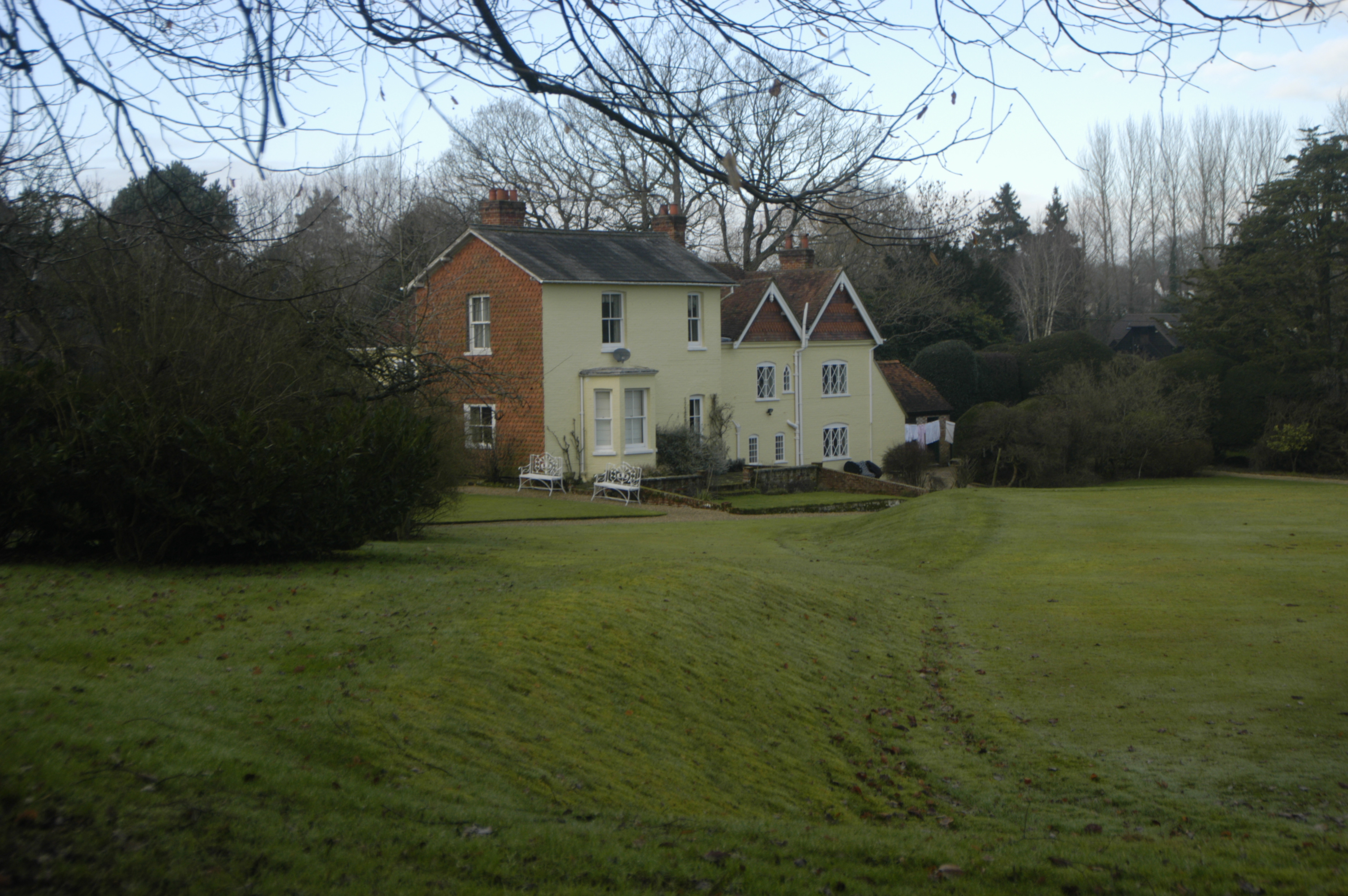 My photo (taken by me) of Budds Farm, Burghclere. Home to Roger Mortimer, 1967-1984.